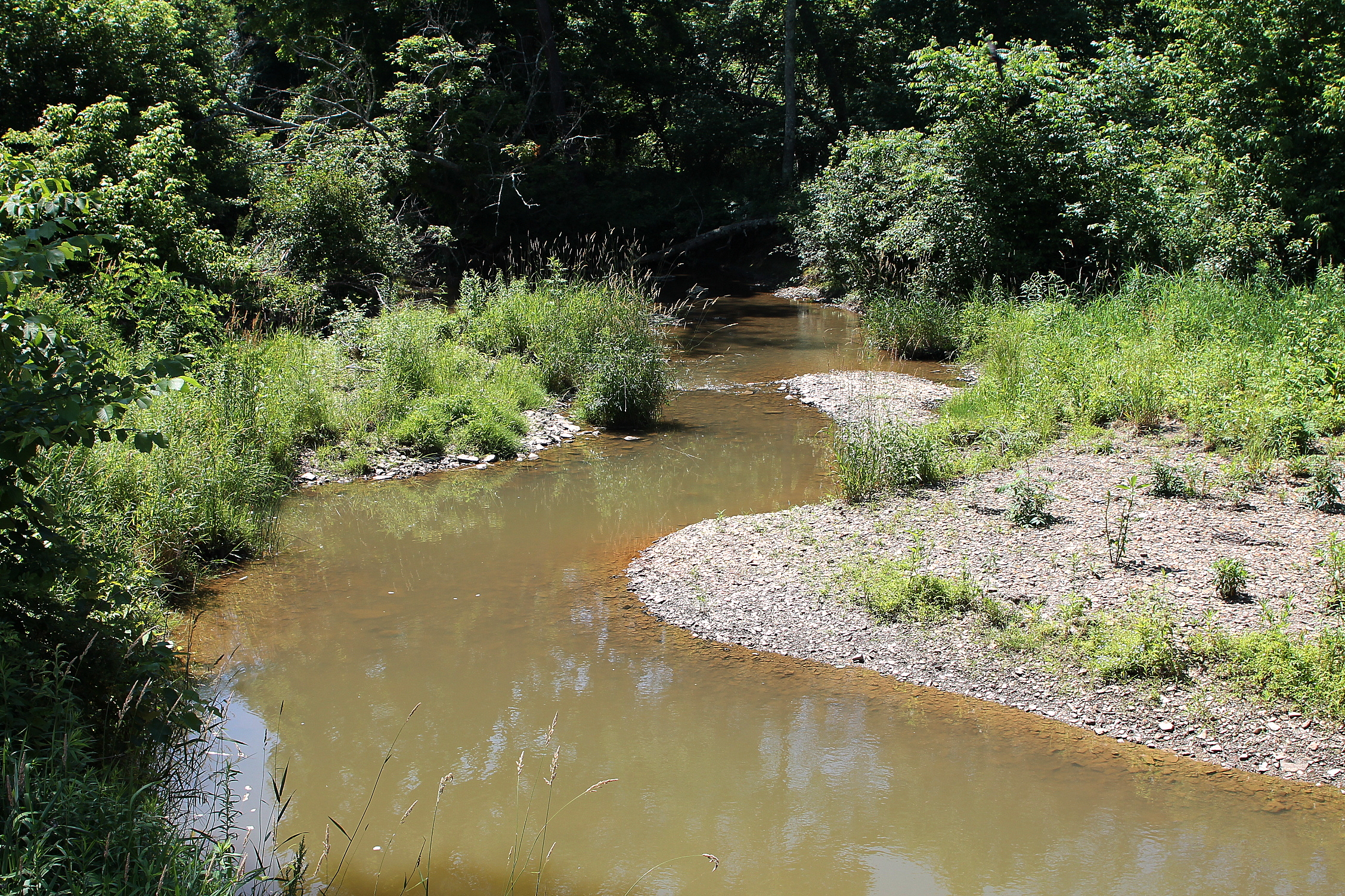 Mud Run in its lower reaches, looking downstream.